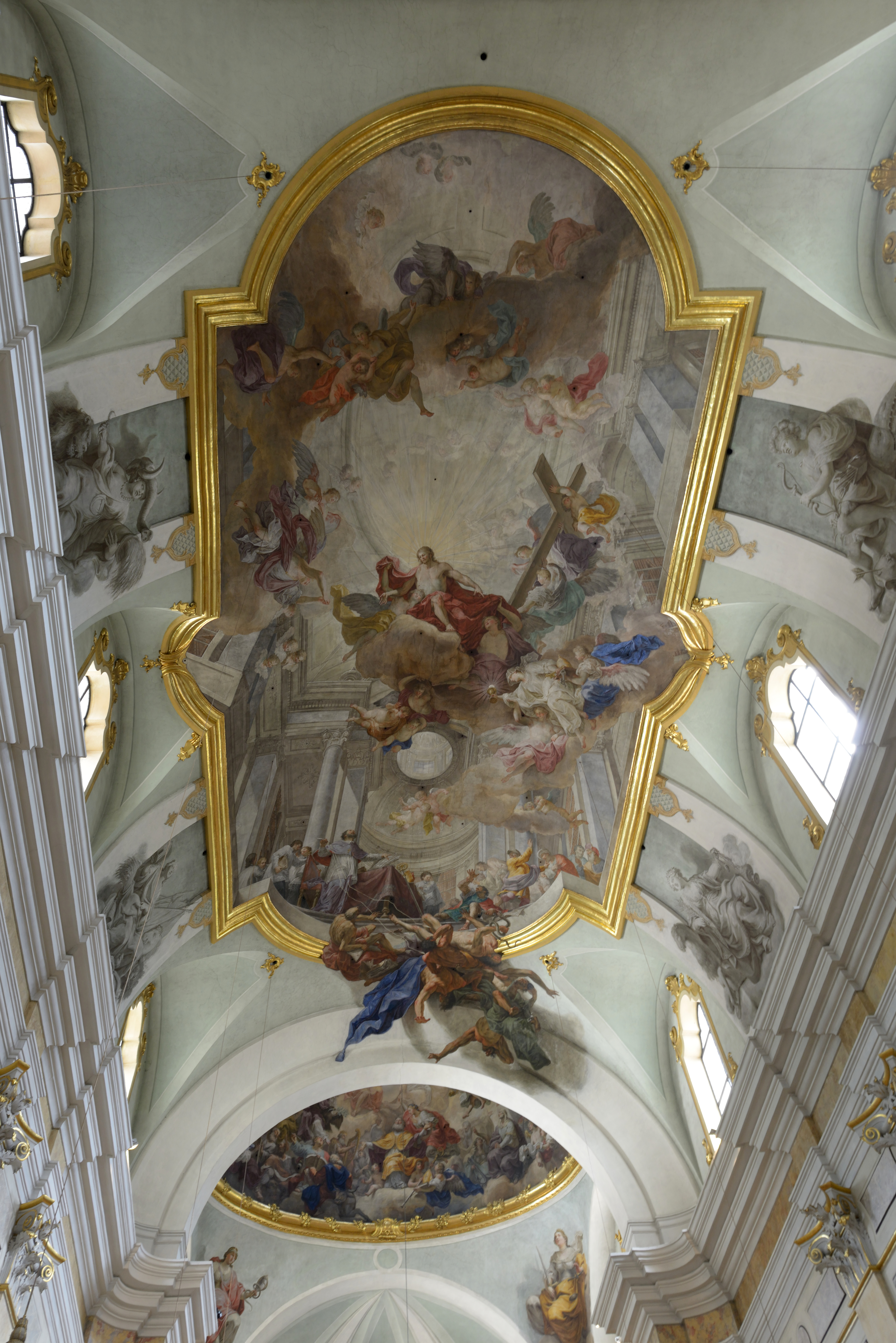 Church in Bozen-Gries